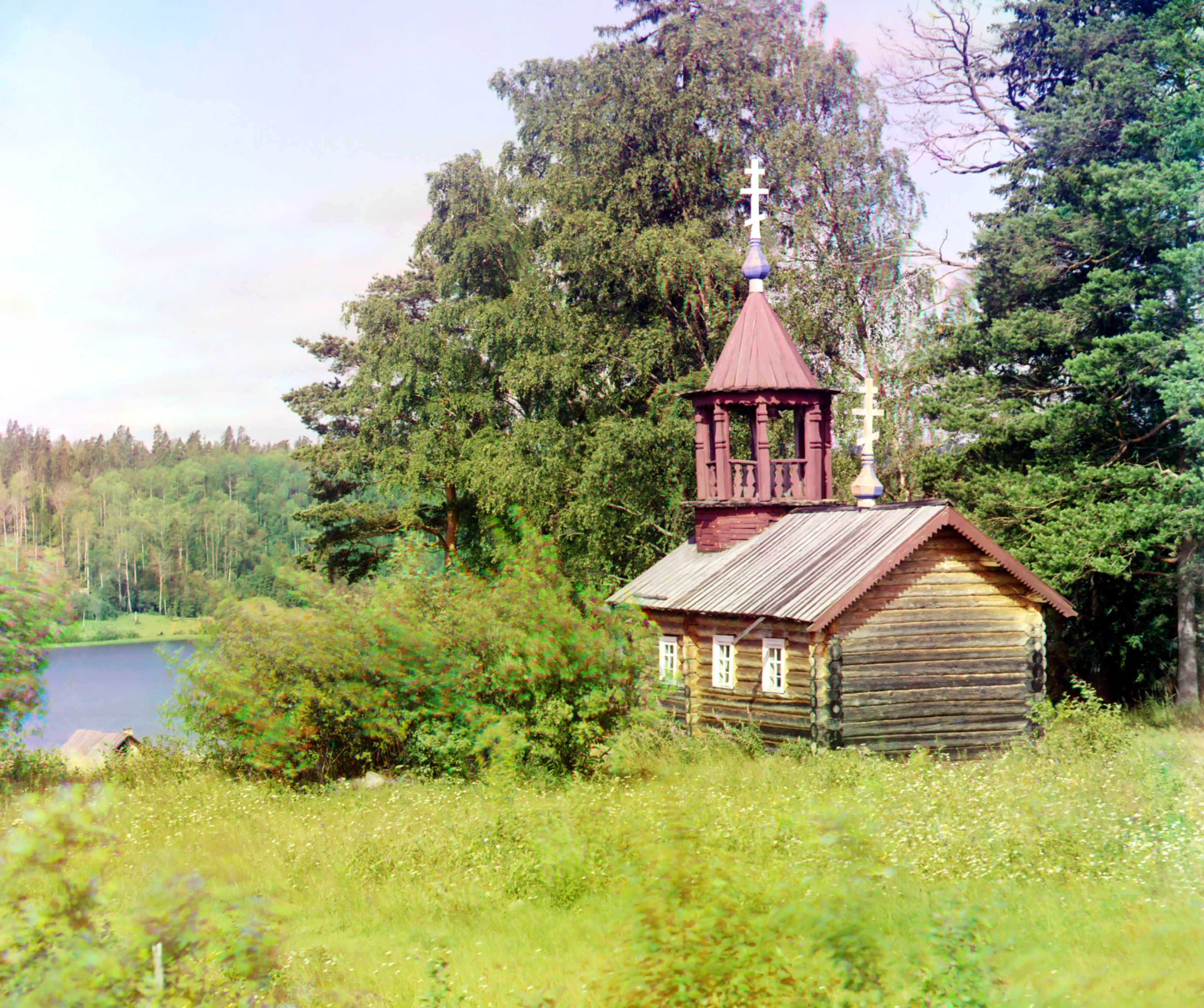 Chapel from the time of Peter the Great, near Kivach waterfall. (Suna River).